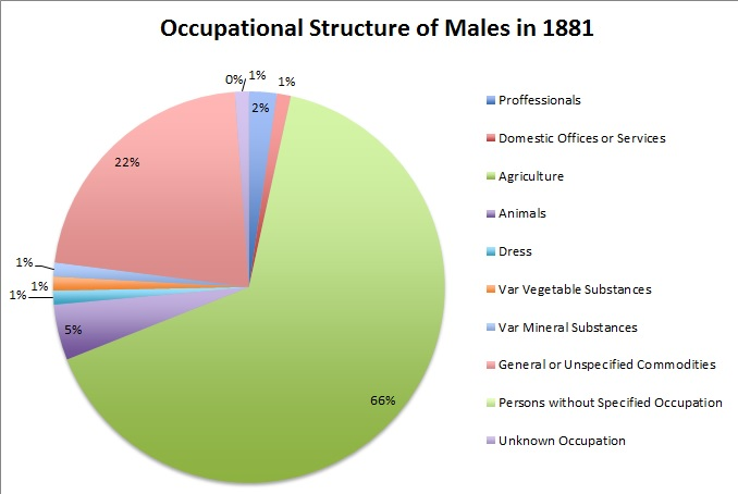 Occupational structure of males in Ringshall in 1881, as reported in the Vision of Britain website.